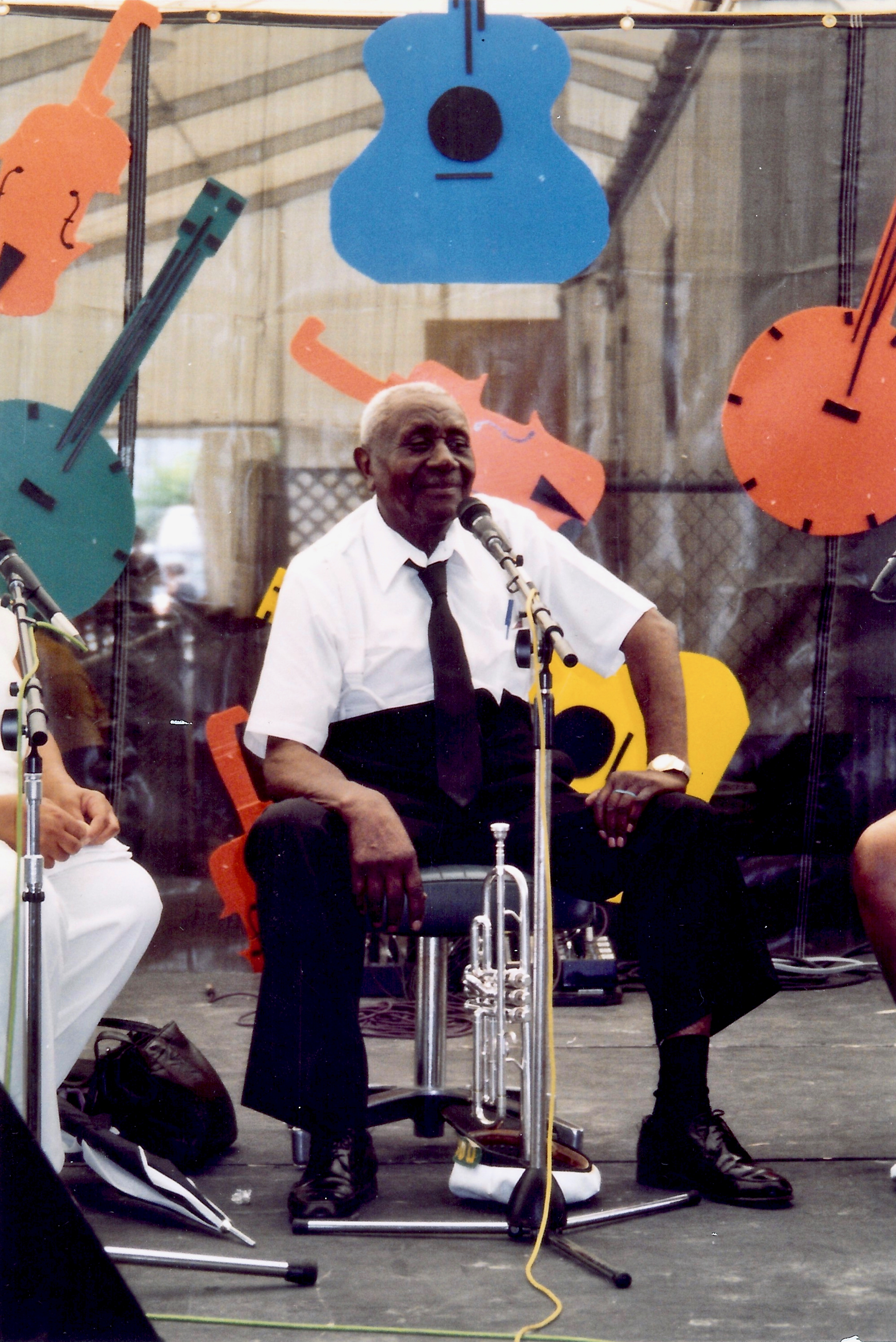 Doc Paulin being interviewed at New Orleans Jazz & Heritage Festival 1995. I found this alternative print in significantly less faded condition in my files.